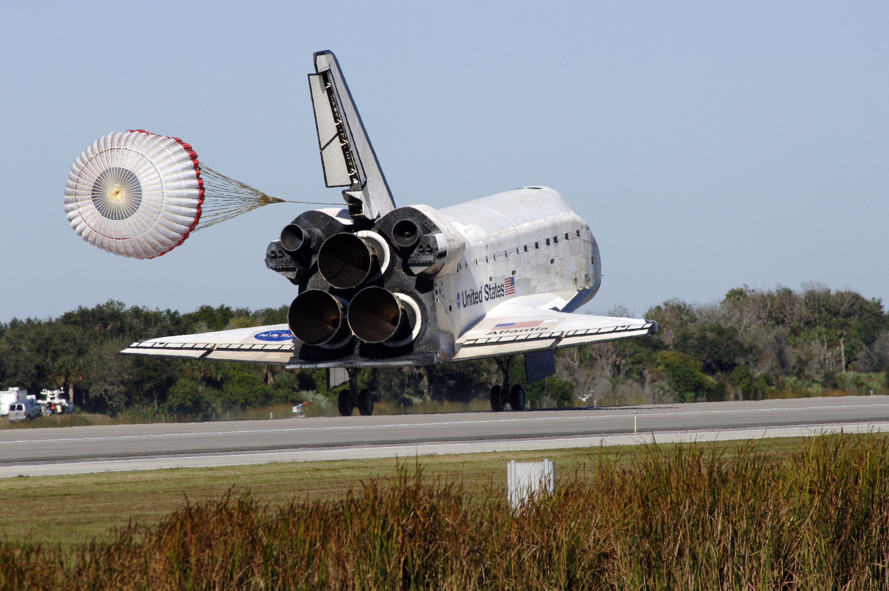 CAPE CANAVERAL, Fla. - With drag chute unfurled, space shuttle Atlantis lands on Runway 33 at the Shuttle Landing Facility at NASA's Kennedy Space Center in Florida after 11 days in space, completing the 4.5-million mile STS-129 mission on orbit 171. Main gear touchdown was at 9:44:23 a.m. EDT. Nose gear touchdown was at 9:44:36 a.m., and wheels stop was at 9:45:05 a.m. Aboard Atlantis are Commander Charles O. Hobaugh; Pilot Barry E. Wilmore; Mission Specialists Leland Melvin, Randy Bresnik, Mike Foreman and Robert L. Satcher Jr.; and Expedition 20 and 21 Flight Engineer Nicole Stott who spent 87 days aboard the International Space Station. STS-129 is the final space shuttle Expedition crew rotation flight on the manifest. On STS-129, the crew delivered 14 tons of cargo to the orbiting laboratory, including two ExPRESS Logistics Carriers containing spare parts to sustain station operations after the shuttles are retired next year. For information on the STS-129 mission and crew, visit